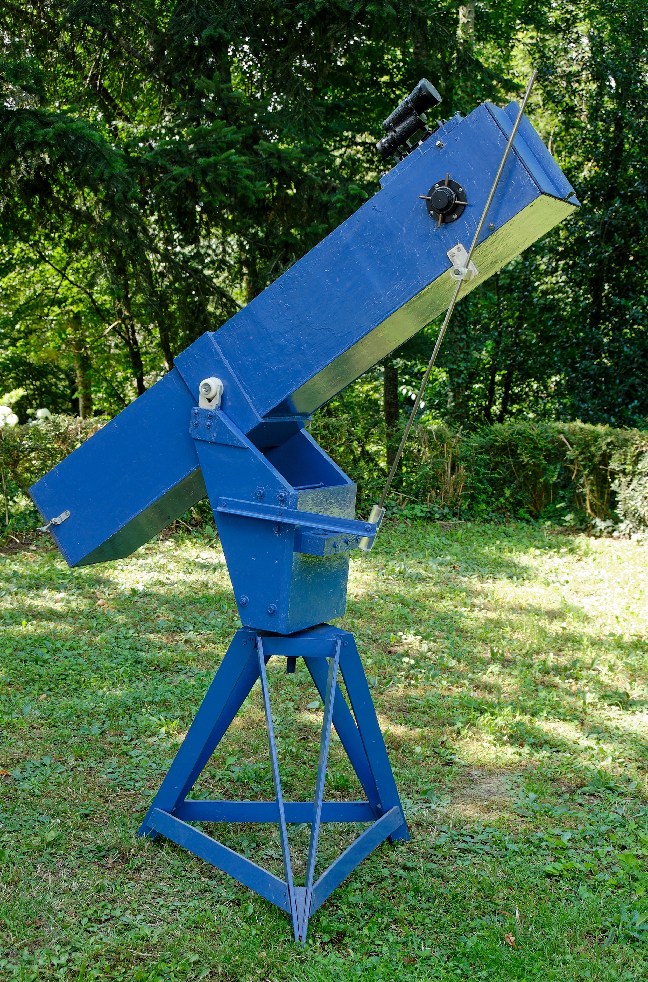 A home-made 150mm Newtonian telescope on an altazimuthal mount built according to Jean Texereau's design in La Construction du télescope d'amateur (1951, translated as How to make a telescope).